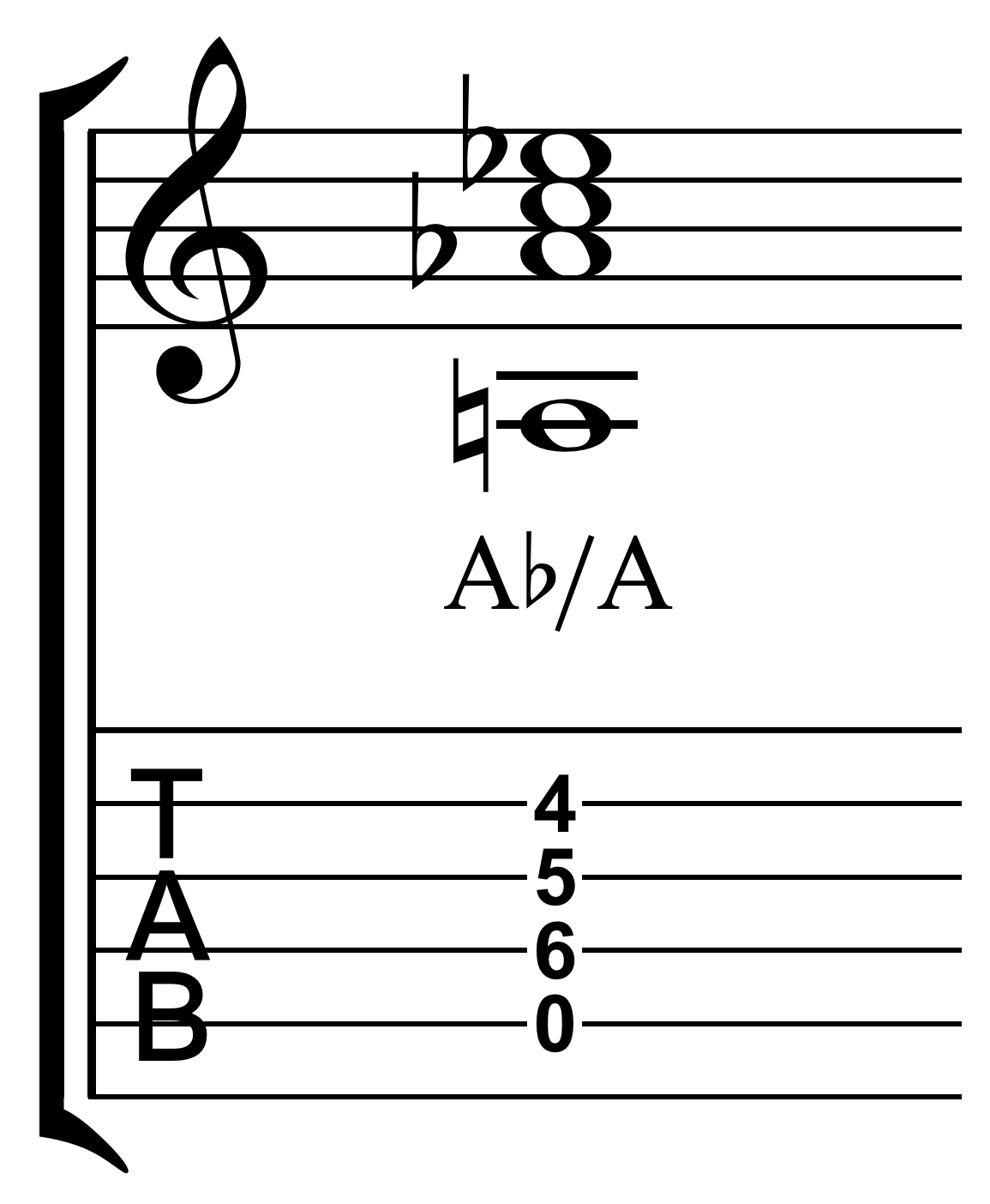 Created by Hyacinth (talk) 00:14, 1 May 2010 using Sibelius 5.